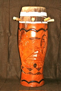 Sabar Drum. This is the bass drum of the Sabar drums family called "Lamb"